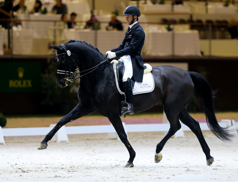 Marc Boblet with Noble Dream Concept Sol Biolight at the Grand Prix Spécial, CDI 4* CHI Geneve 2016